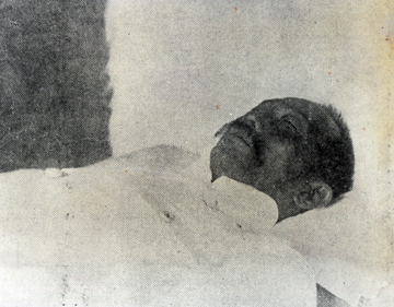 Miguel Malvar, Filipino general, lies in state.